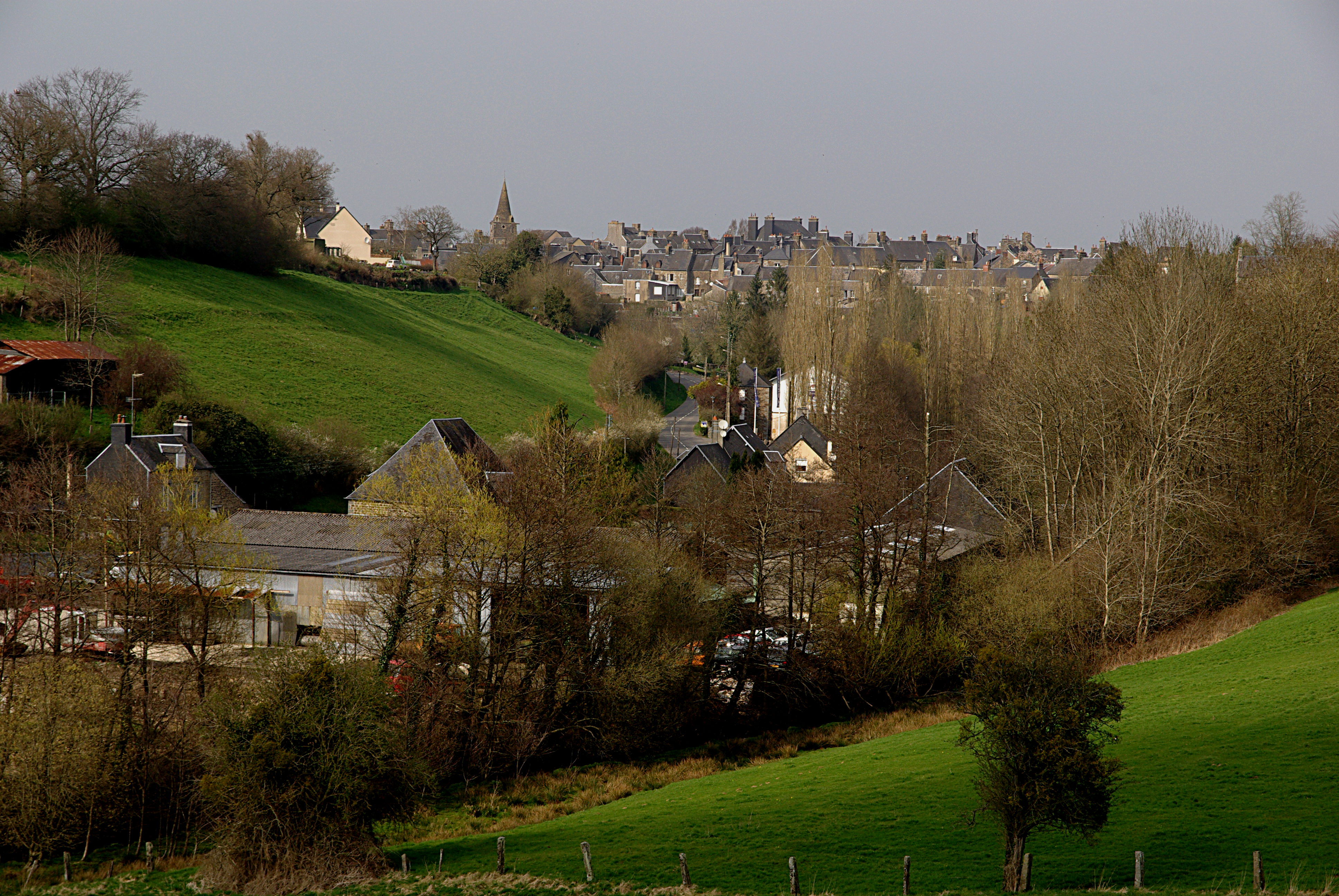 Partial viewpoint of Tinchebray, village in Orne 61, France. St Rémy'church far away